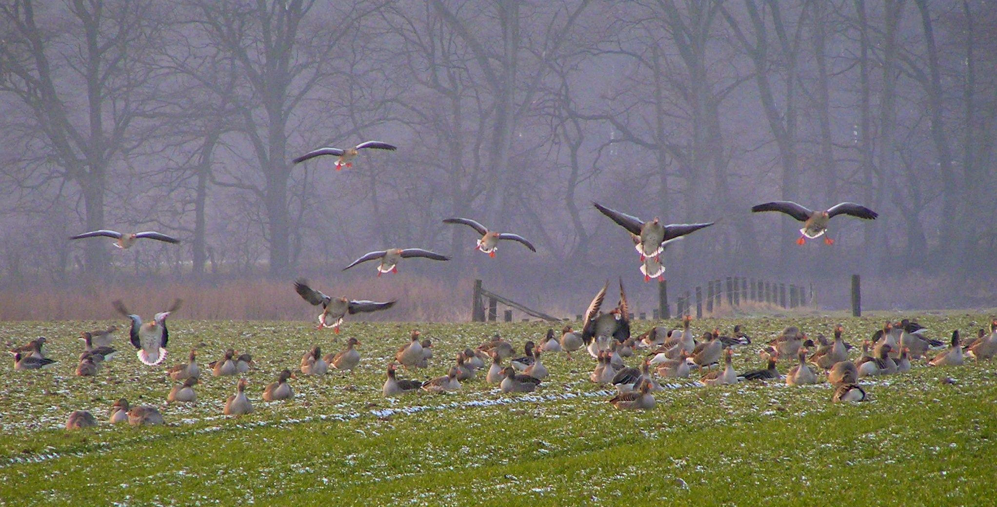 Greylag goose (Anser anser) colony at the in the meadows of the Lippe river in Dorsten, Germany